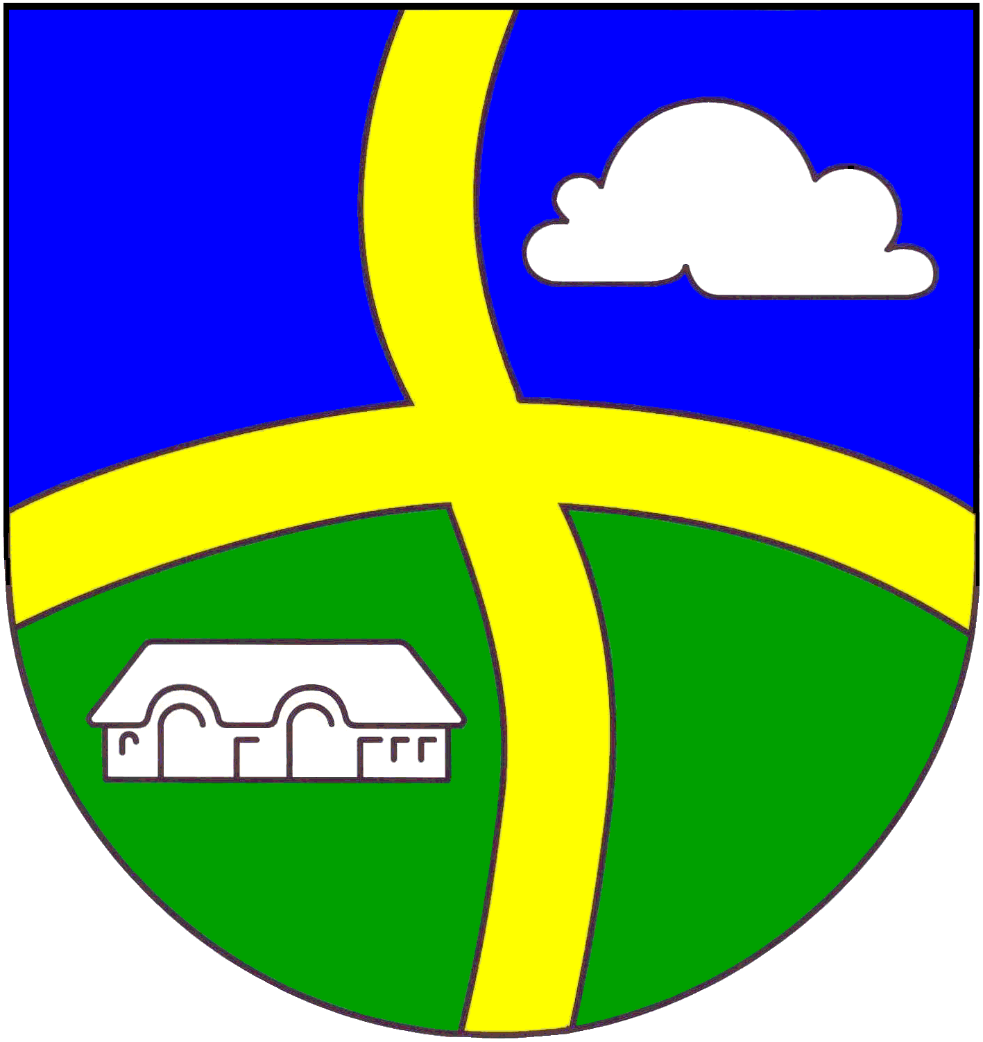 Coat of arms of the municipality Vollstedt in Schleswig-Holstein, Germany.